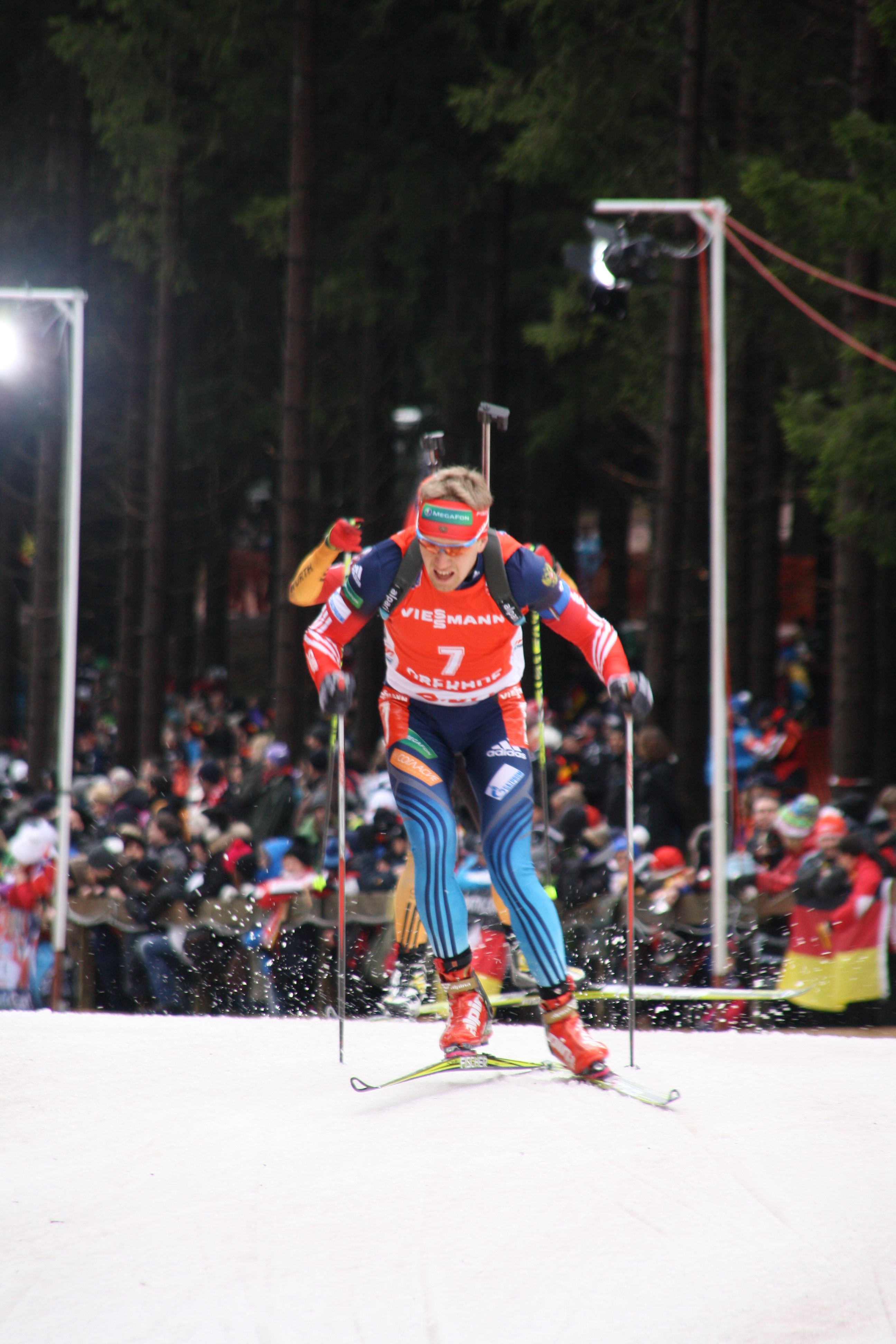 Biathlon World Cup Oberhof 2014 - Mens Pursuit